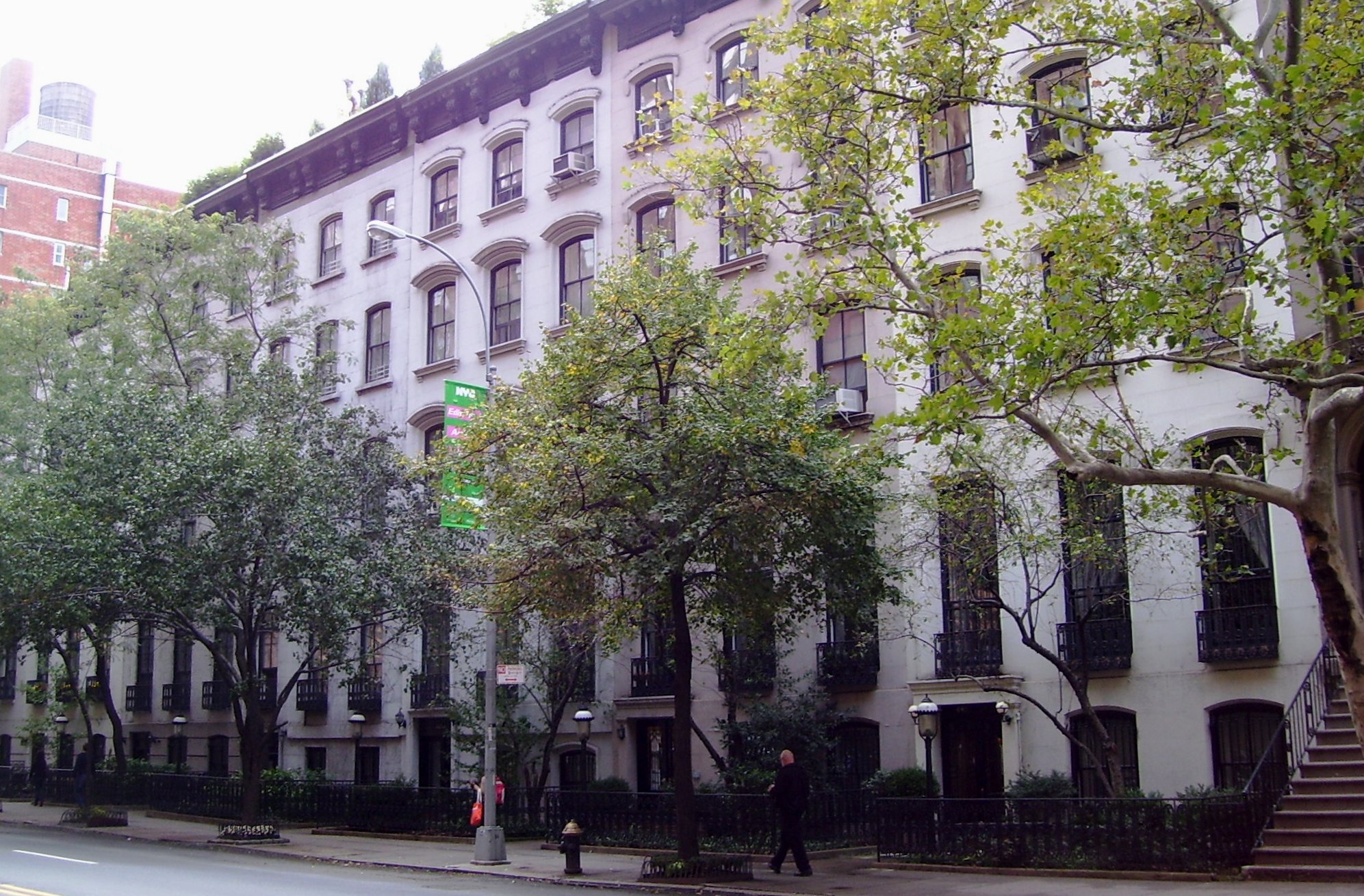 Part of a row of Anglo-Italianate townhouses at 428-450 West 23rd Street inthe Chelsea neighborhood of Manhattan, New York City, located opposite London Terrace. Built around 1860 and renovated from a decayed state c.1978.